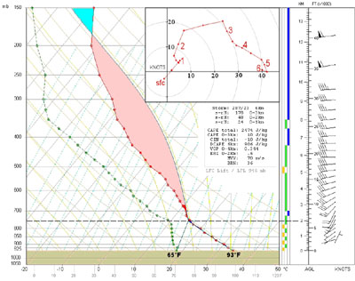 The readings received by the rawinsonde are plotted for a meteorologist to examine. These vertical cross sections are plotted on what is referred to as Skew-T Log-P diagram. Among the many uses that meteorologists have for the Skew-T Log-P is the determination of the stability of the atmosphere and the potential for severe weather. The Pink area represent the potential energy available for convection (CAPE). On top of the SKW_T, this images shows and hodograph of winds in the upper part and the wind direction are plotted on the right.